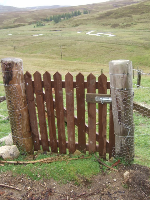 View across the Don to Badochurn From a wicket gate in the rabbit fence alongside the Badnabein to Loinherry track, and inside the clear-felled forest area.